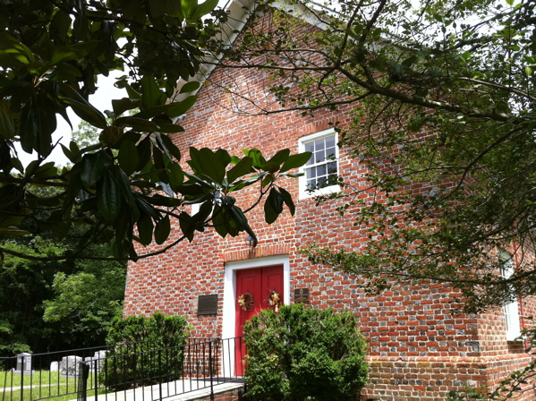 Christ Church, Durham Parish, Charles County, Maryland, established 1666, present church dates to 1732.